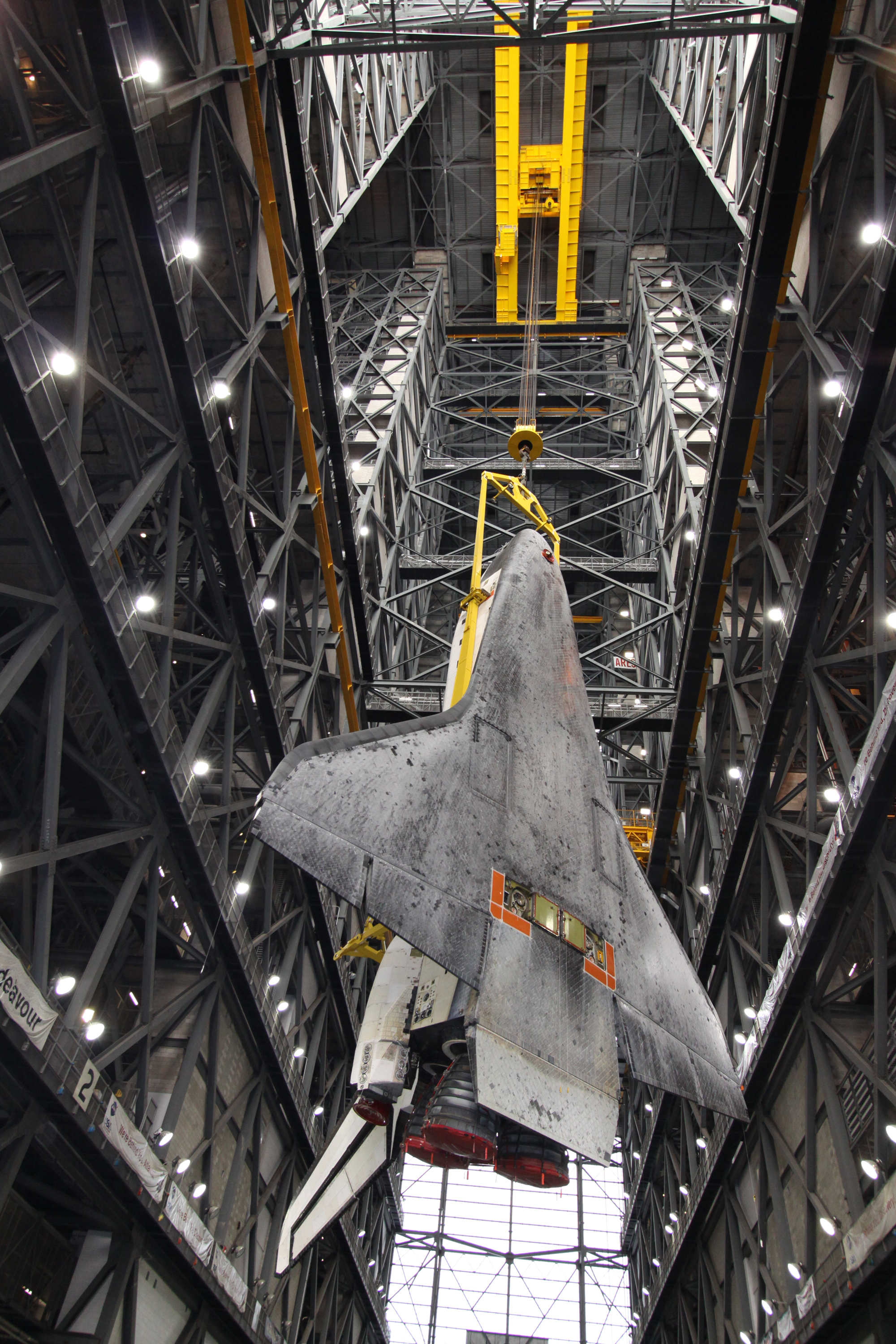 CAPE CANAVERAL, Fla. – Space shuttle Atlantis is lifted by the yellow crane above it toward the transom of High Bay 1 in the Vehicle Assembly Building at NASA’s Kennedy Space Center in Florida. Next, Atlantis will be lowered onto a mobile launcher platform in the bay where it will be attached to an external fuel tank and pair of solid rocket boosters. Rollout of the completed shuttle stack to Kennedy’s Launch Pad 39A, a significant milestone in launch processing activities, is planned for Oct. 13. Liftoff of Atlantis on its STS-129 mission to the International Space Station is targeted for 4:04 p.m. EST Nov. 12 during a 10-minute launch window. For information on the STS-129 mission and crew, visit